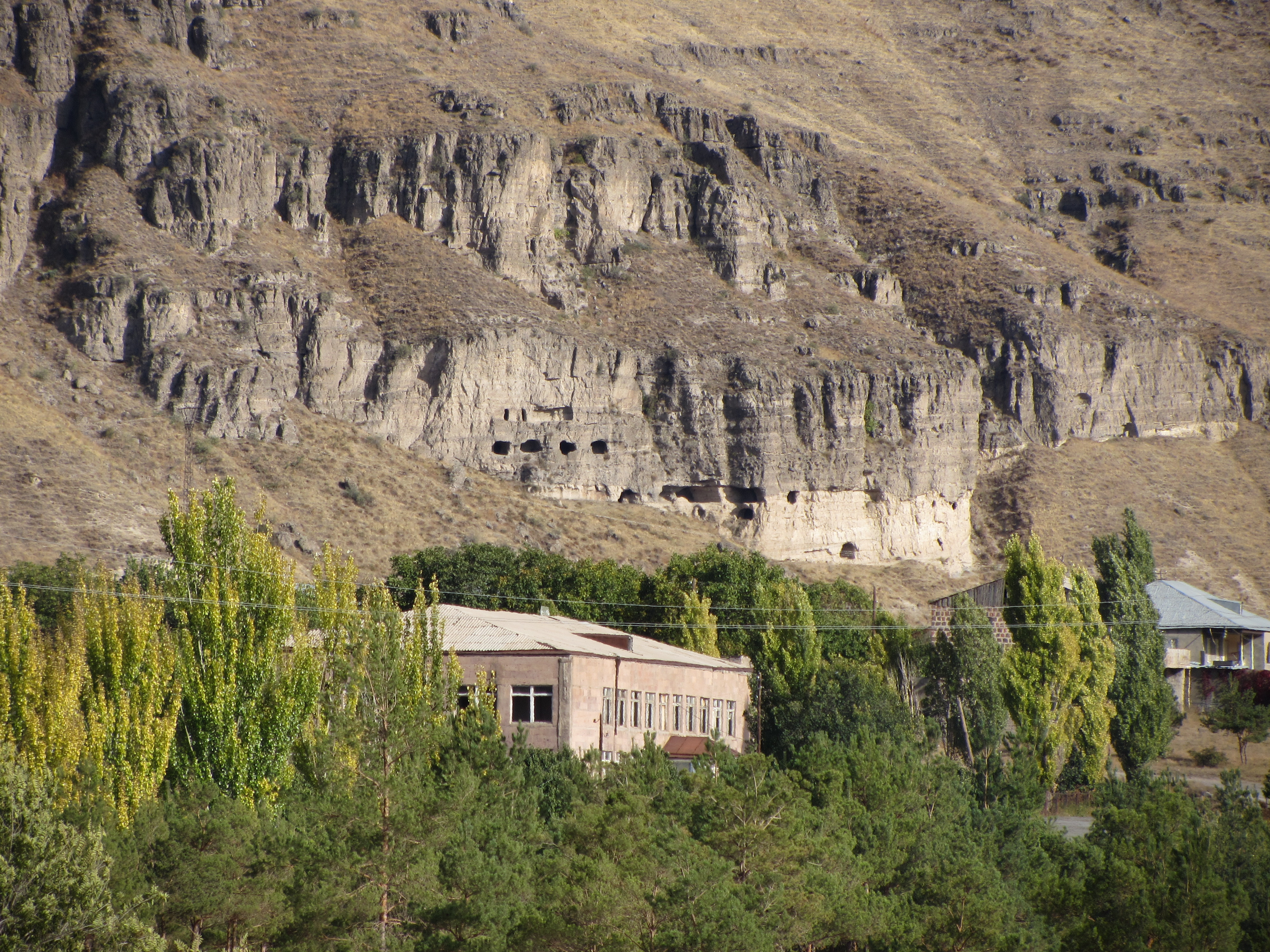 Voghjaberd, Cave settlement, 10-15c., located in north of village. View from Charents's arch.